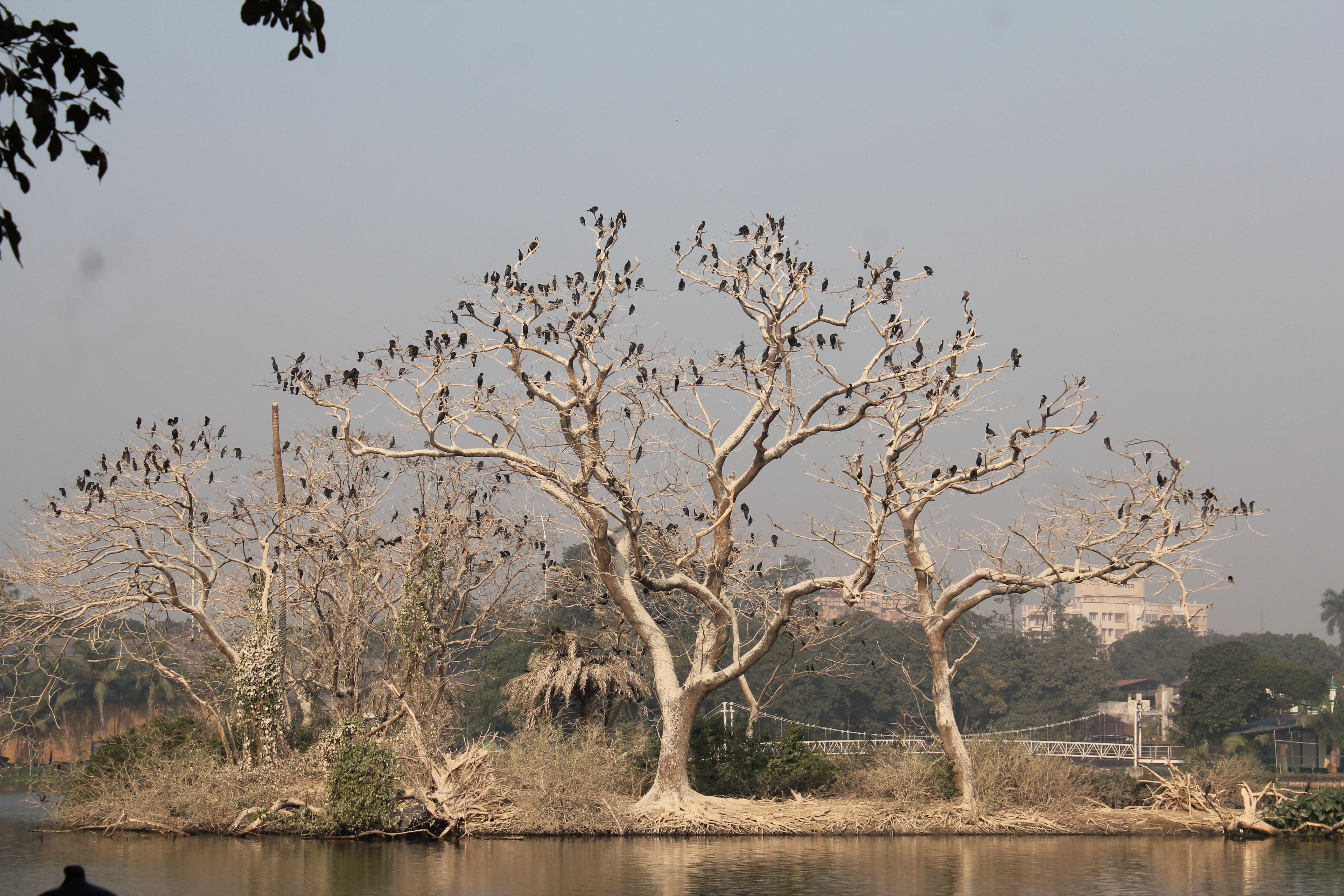 Coloney of Great Cormorant at Rabindra Sarobar Kolkata